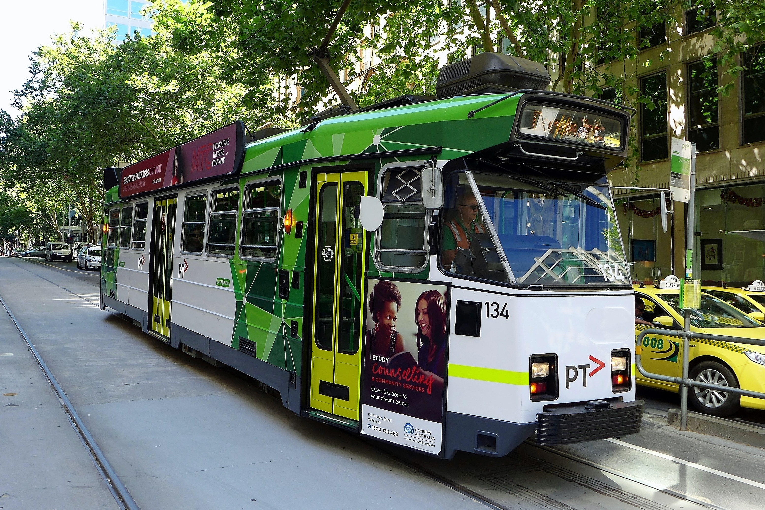 Z3 class tram no 134 at the Collins Street tram stop in William Street, with a route 55 service from West Coburg to Domain Interchange in Melbourne, Australia